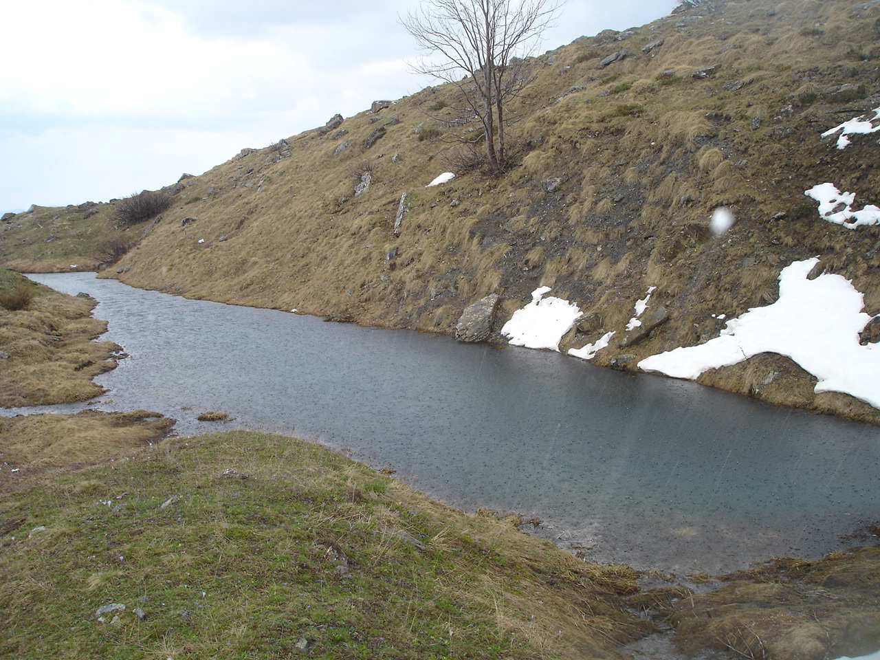 South Gashovo Lake on Deshat mountain, Macedonia